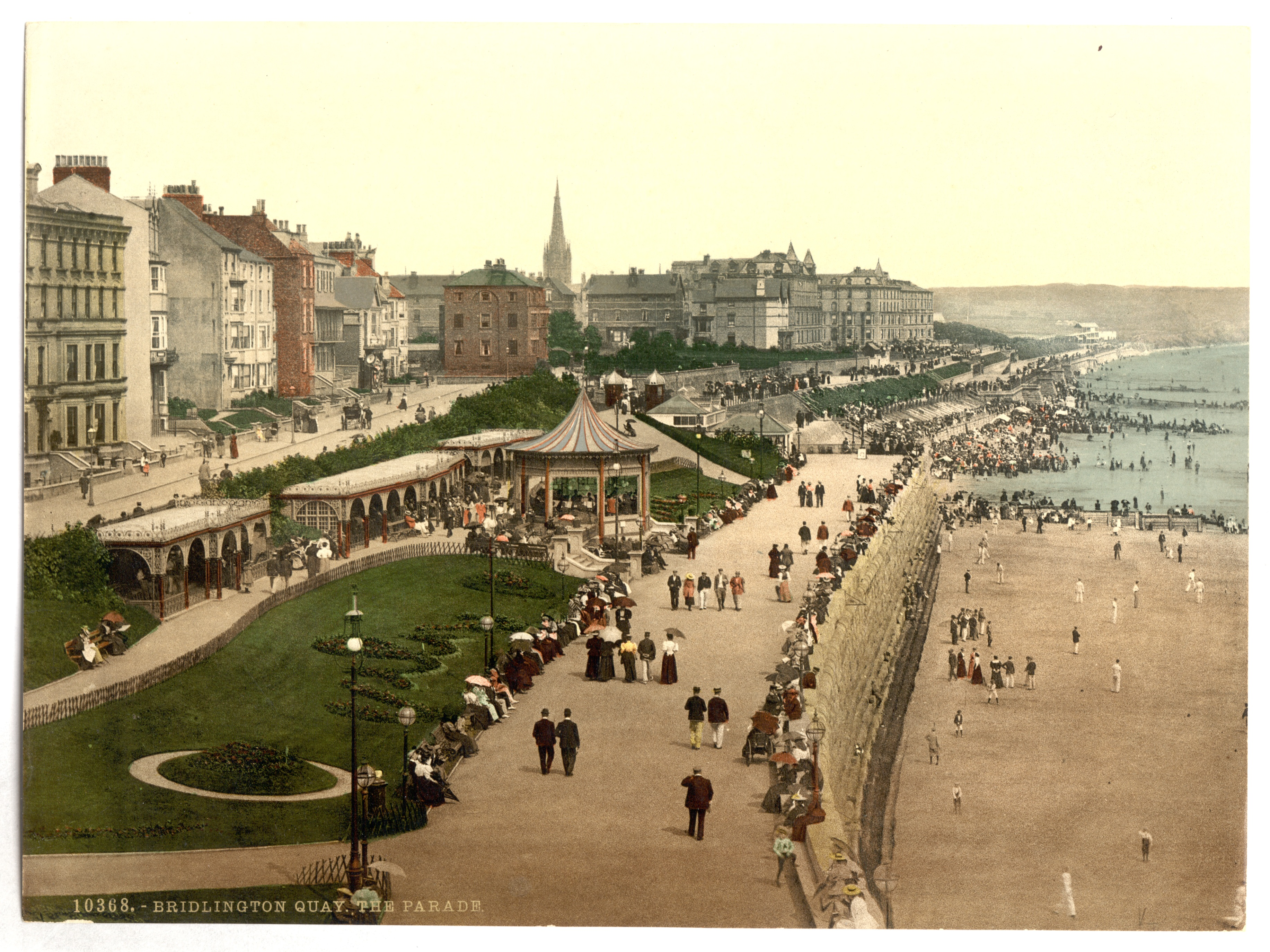 Print no. "10368".; Title from the Detroit Publishing Co., Catalogue J-foreign section, Detroit, Mich. : Detroit Publishing Company, 1905.; Forms part of: Views of England in the Photochrom print collection.